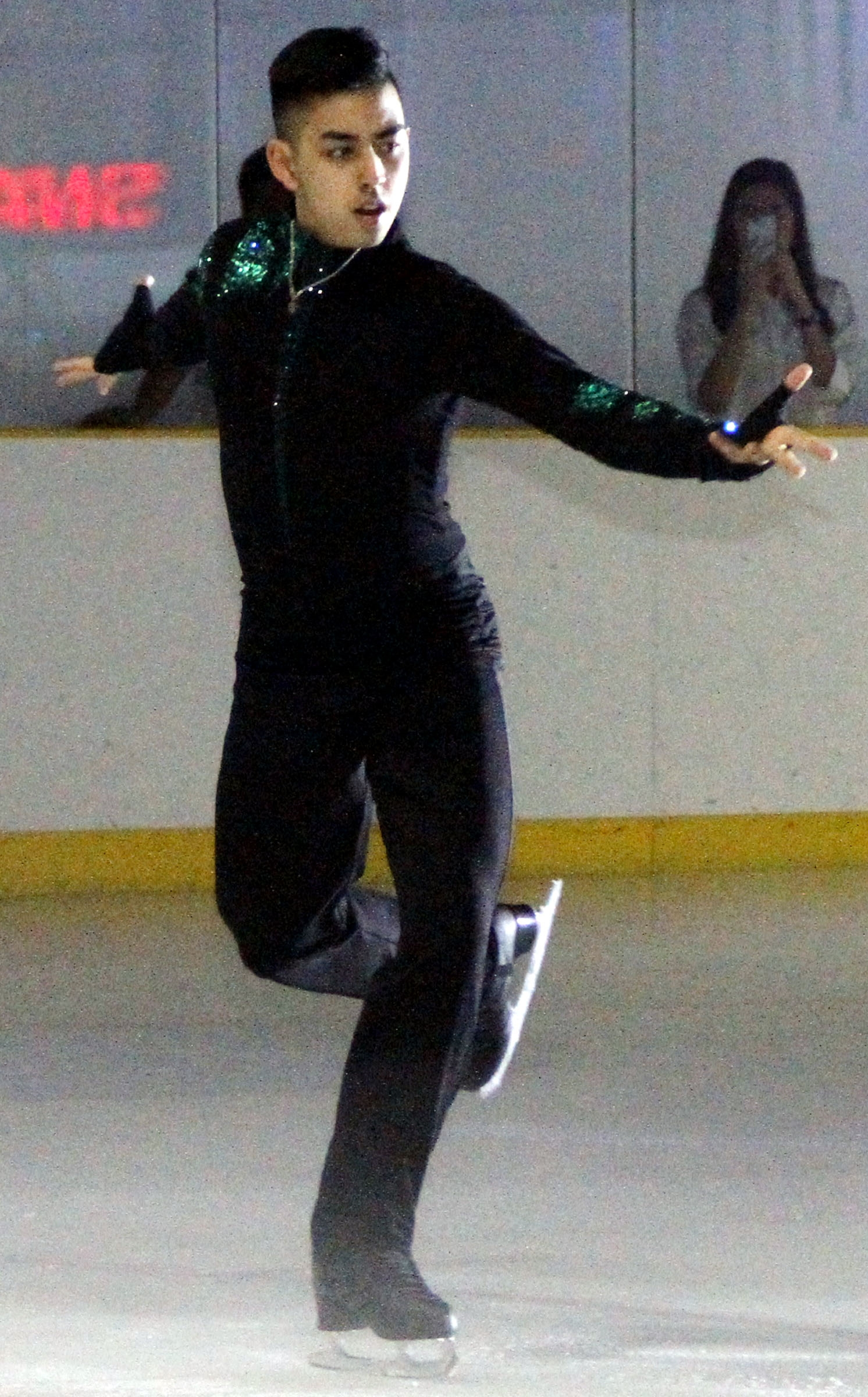 Michael Martinez, who represented the Philippines in the 2018 Pyeongchang Winter Olympics, performs during his homecoming celebration at the SM Mall of Asia in Pasay City on Thursday (Feb. 22, 2018). Martinez said he hopes his experience becomes an inspiration for the next generation of ice athletes. (PNA photo by Jess Escaros Jr.)